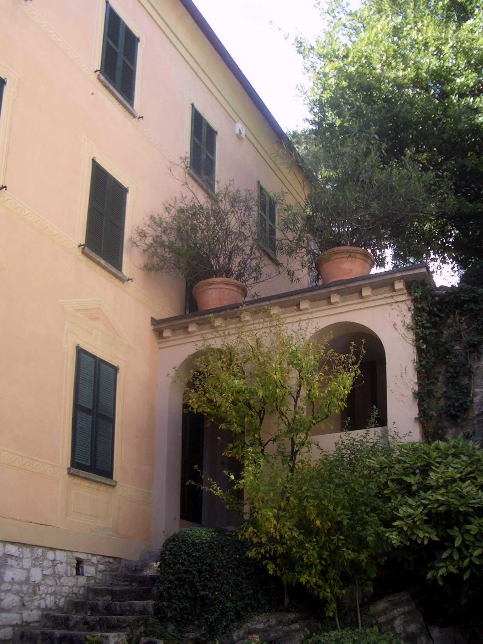 Oria Valsolda, the house where the writer Antonio Fogazzaro lived